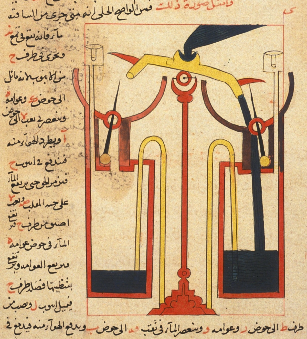 Arabic Machine Manuscript (Orient manuscript 3306) (this image is cropped and part of the text at the top is not showing-see the link below for the complete page)